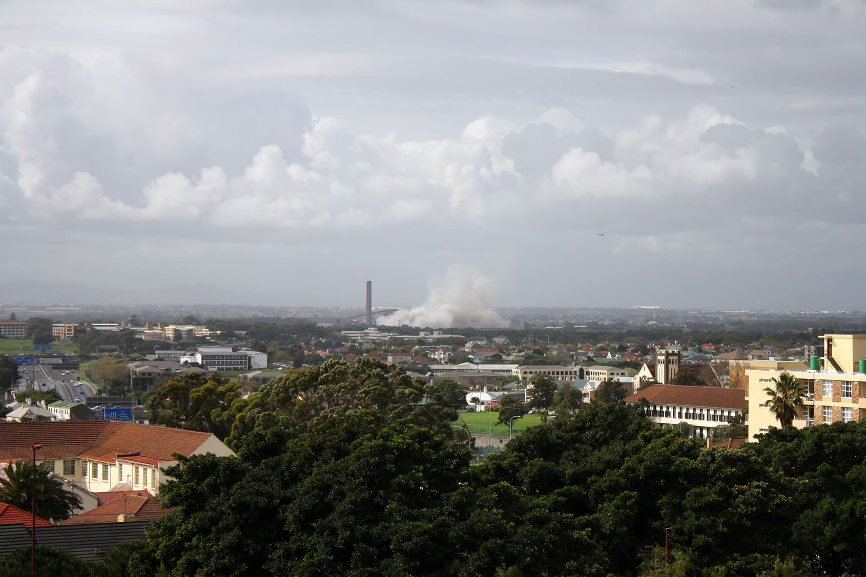 10 seconds after detonation, the Athlone Cooling Towers have been reduced to a pile of concrete and dust.